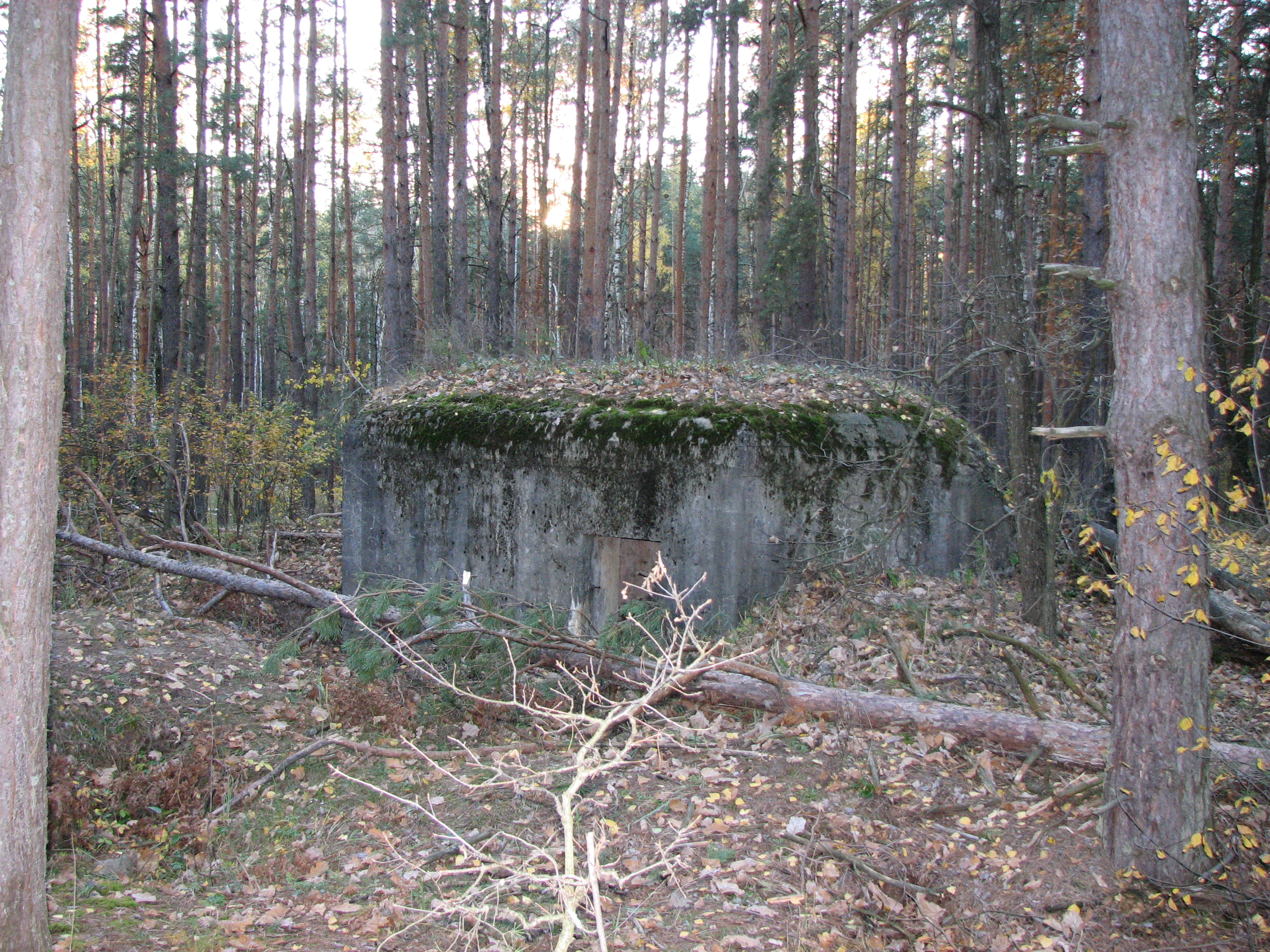 Pillbox 508 (Kyiv Fortified Region)